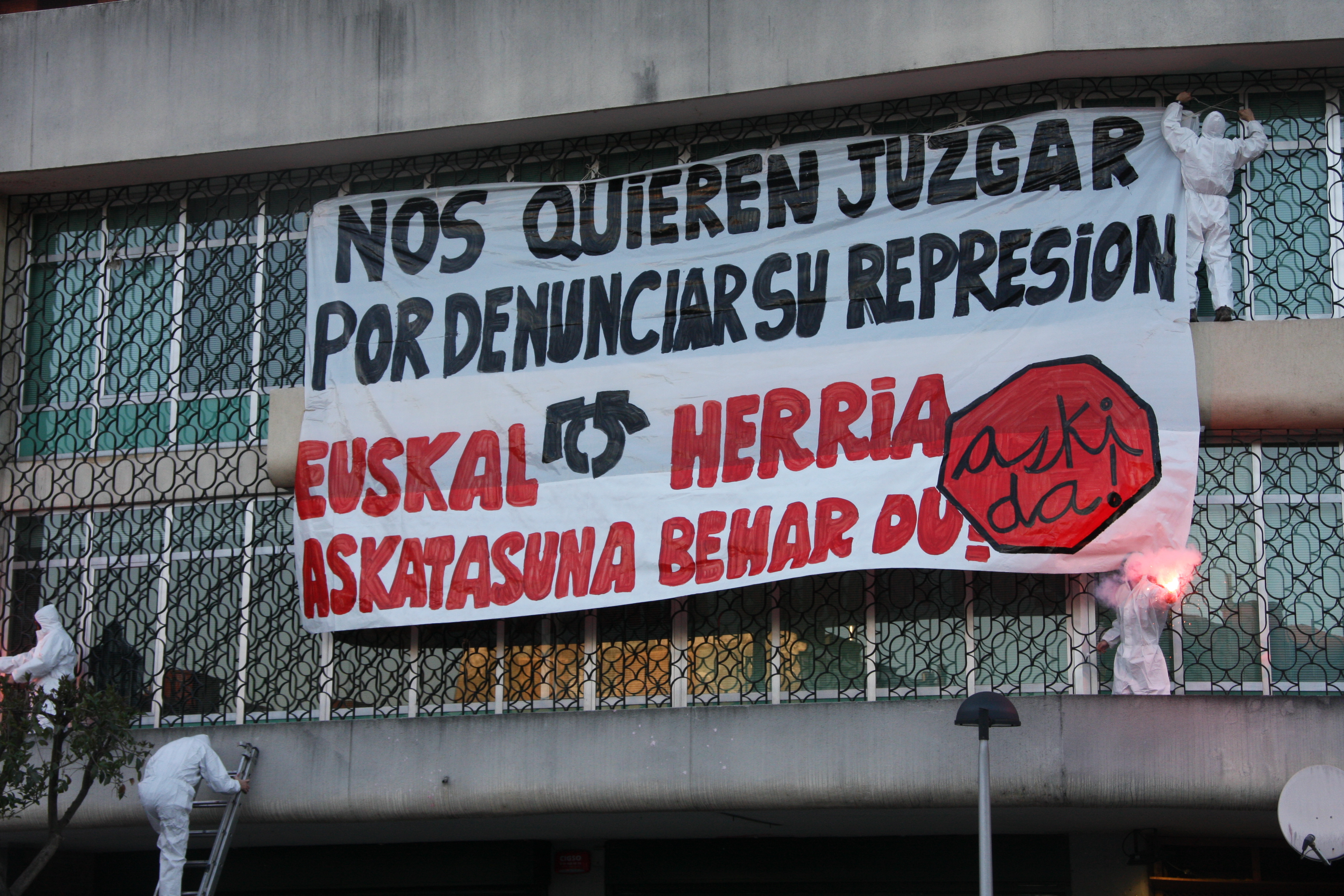 Banner claimnig for freedom in Basque Country.